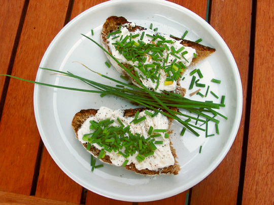 Bread with quark and spring onion